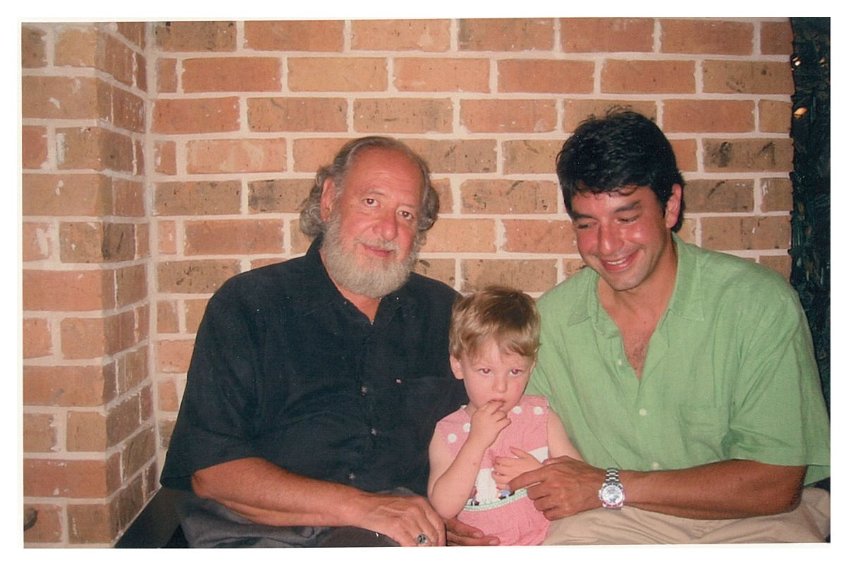 Carlos I, Carlos II, Carlos III